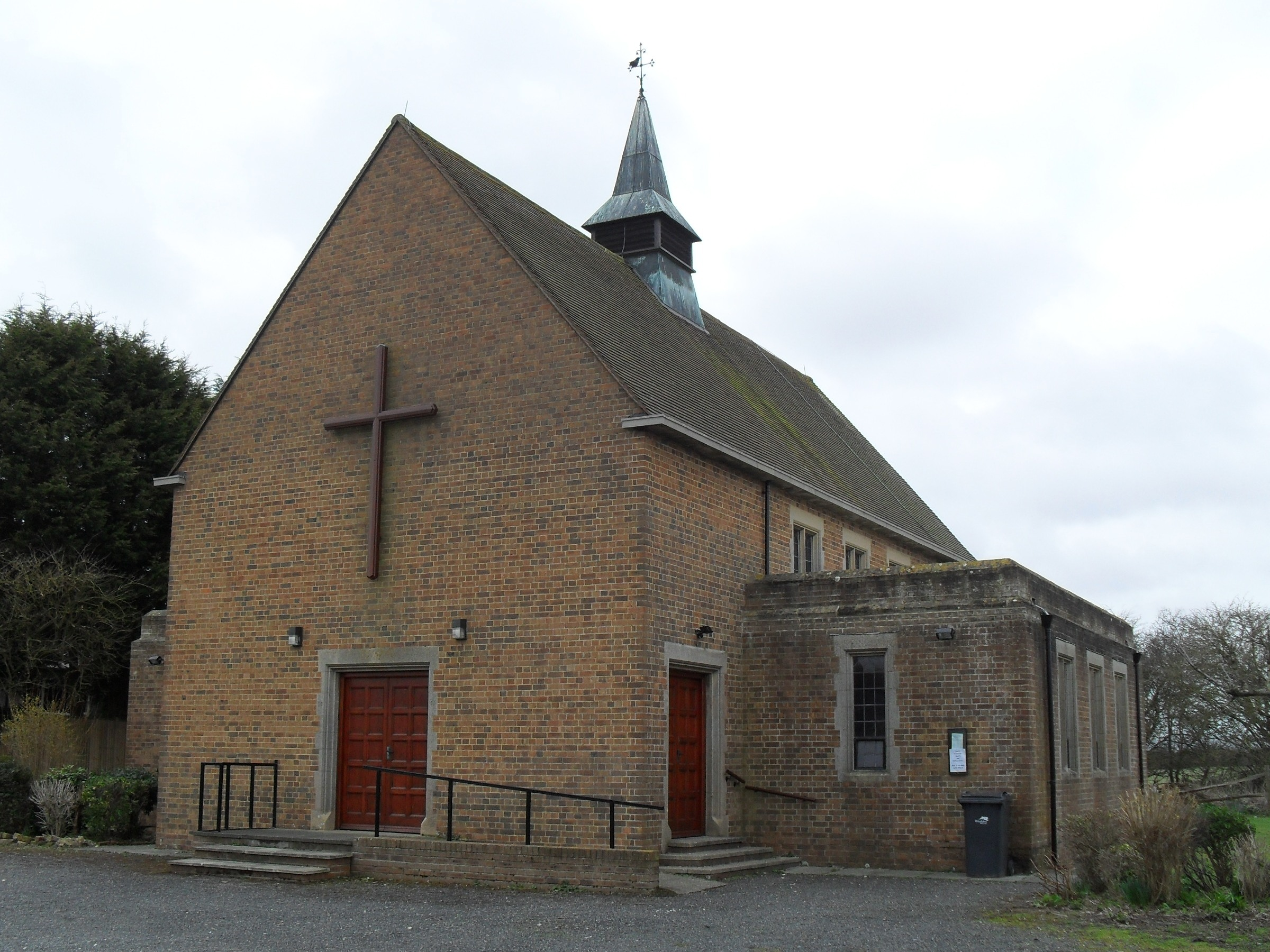 Chapel of the Holy Rood, Pevensey Bay, Wealden, East Sussex, England. A small, modern Roman Catholic church in the 20th-century residential development of Pevensey Bay, near Eastbourne.